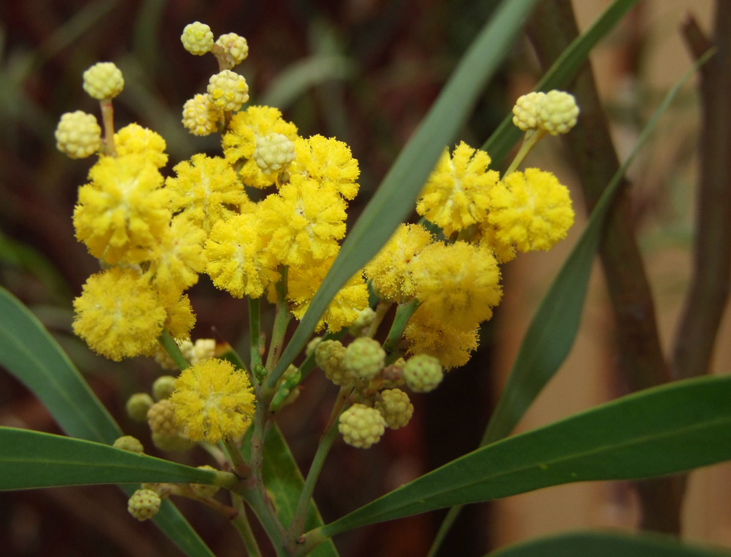 Acacia retinodes Schltdl., wild source: southern Australia, picture taken in Munich Botanial Garden